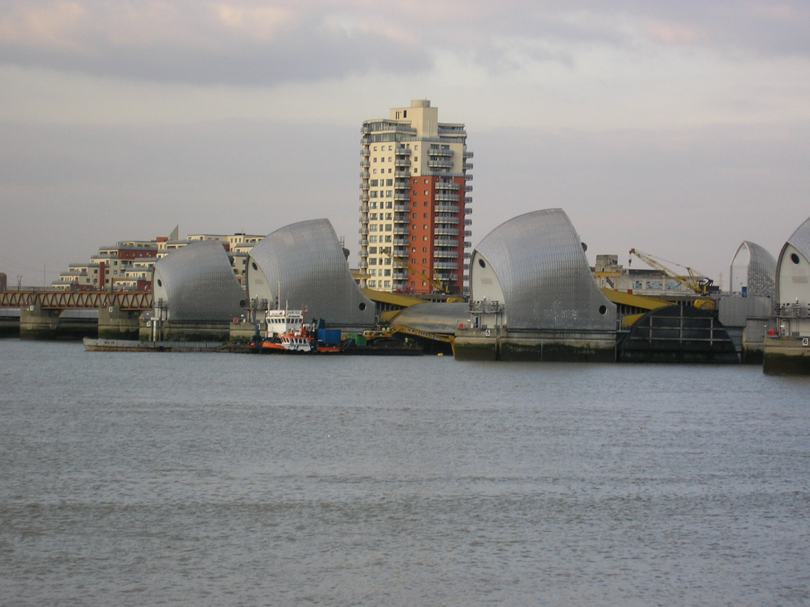 The Thames Barrier